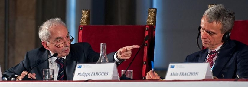 SoU2013 - The State of the Union 2013